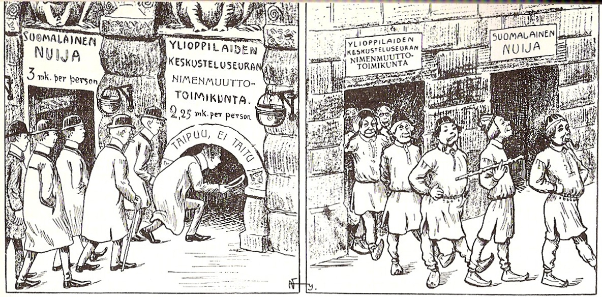 Influenced by the Fennoman movement, many public officials and students changed their Swedish or foreign family names into Finnish. In this caricature, the Swedish comic paper Fyren pokes fun at the name changes, which transforms gentlemen into queer bumpkins.